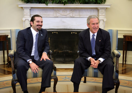 President George W. Bush meets with Lebanese Parliment member Saad Hariri